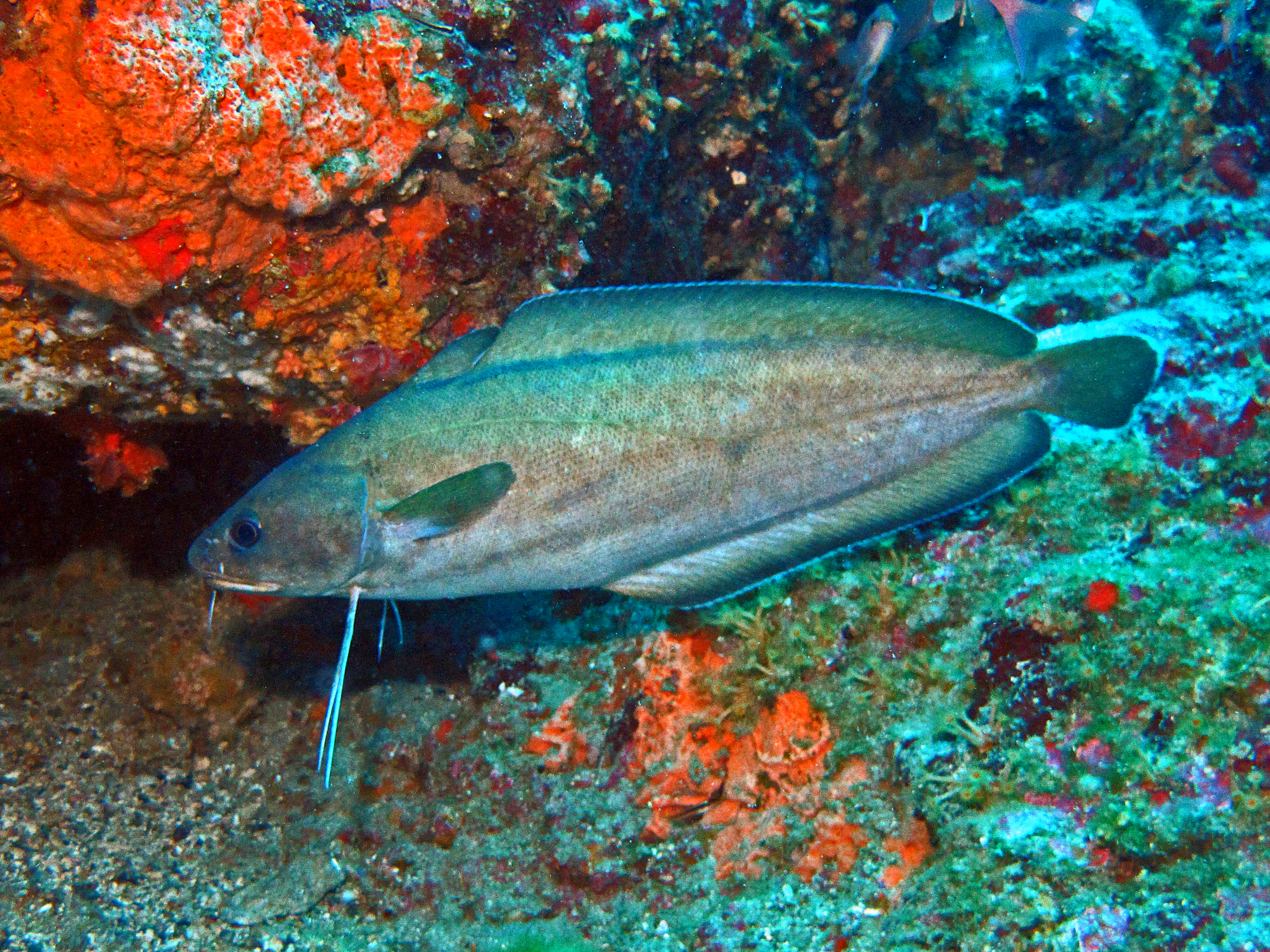 Phycis phycis from Area naturale marina protetta di Portofino